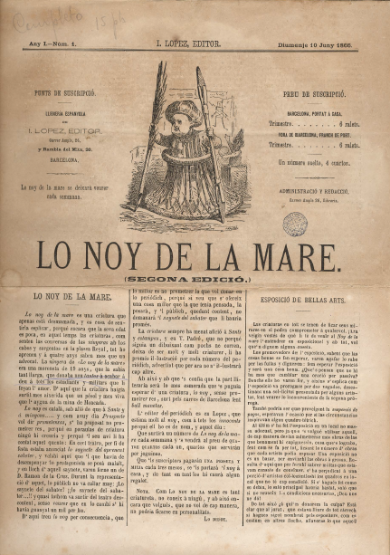 Lonoydelamare - num.01